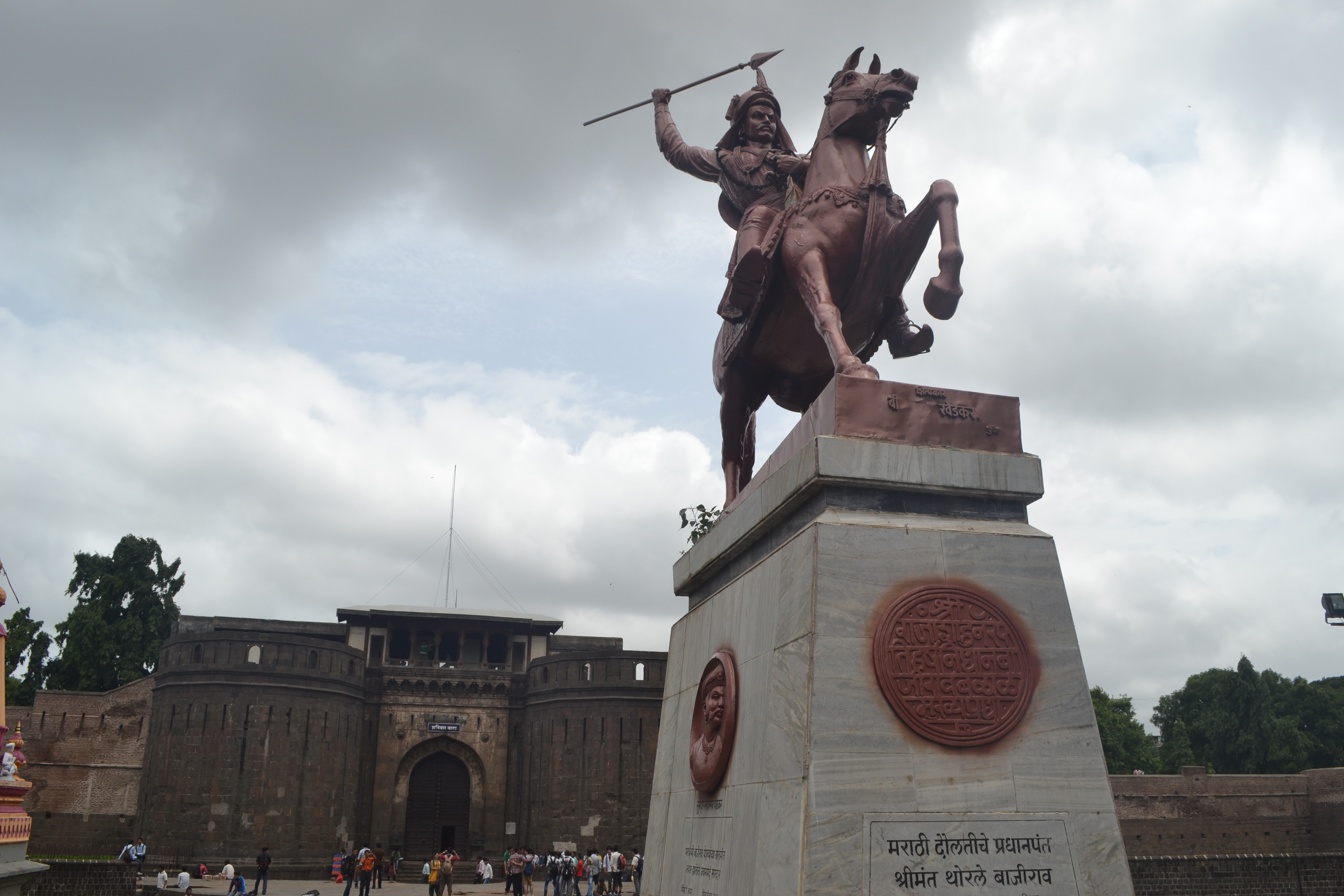 Old Citadel know as Shaniwar Wada It's not the sculptor of Chhattrapati Shahu; it's the sculpture of Baji Rao I. This file should be renamed. The current title is misleading.